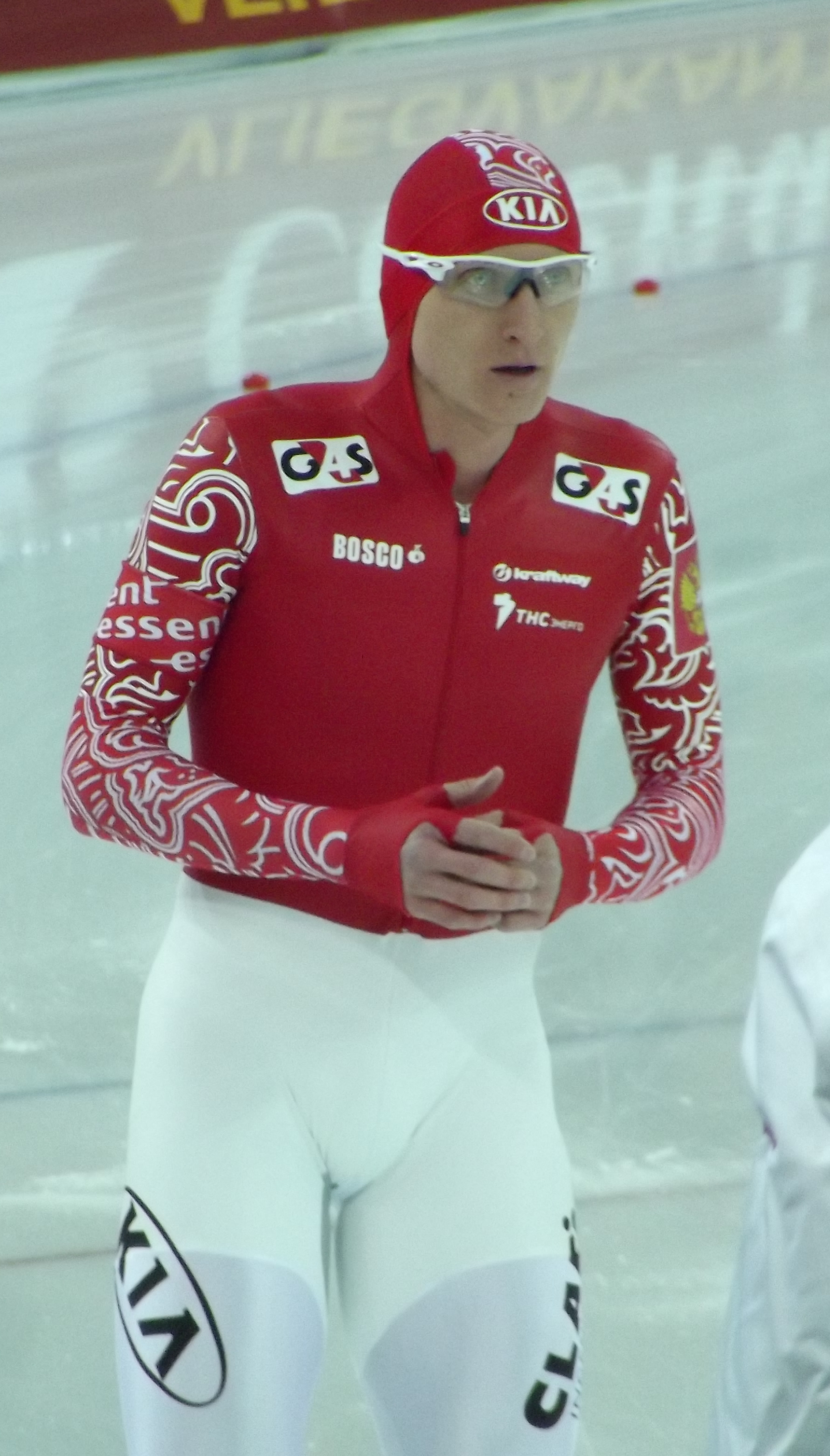 2013 World Single Distance Speed Skating Championships